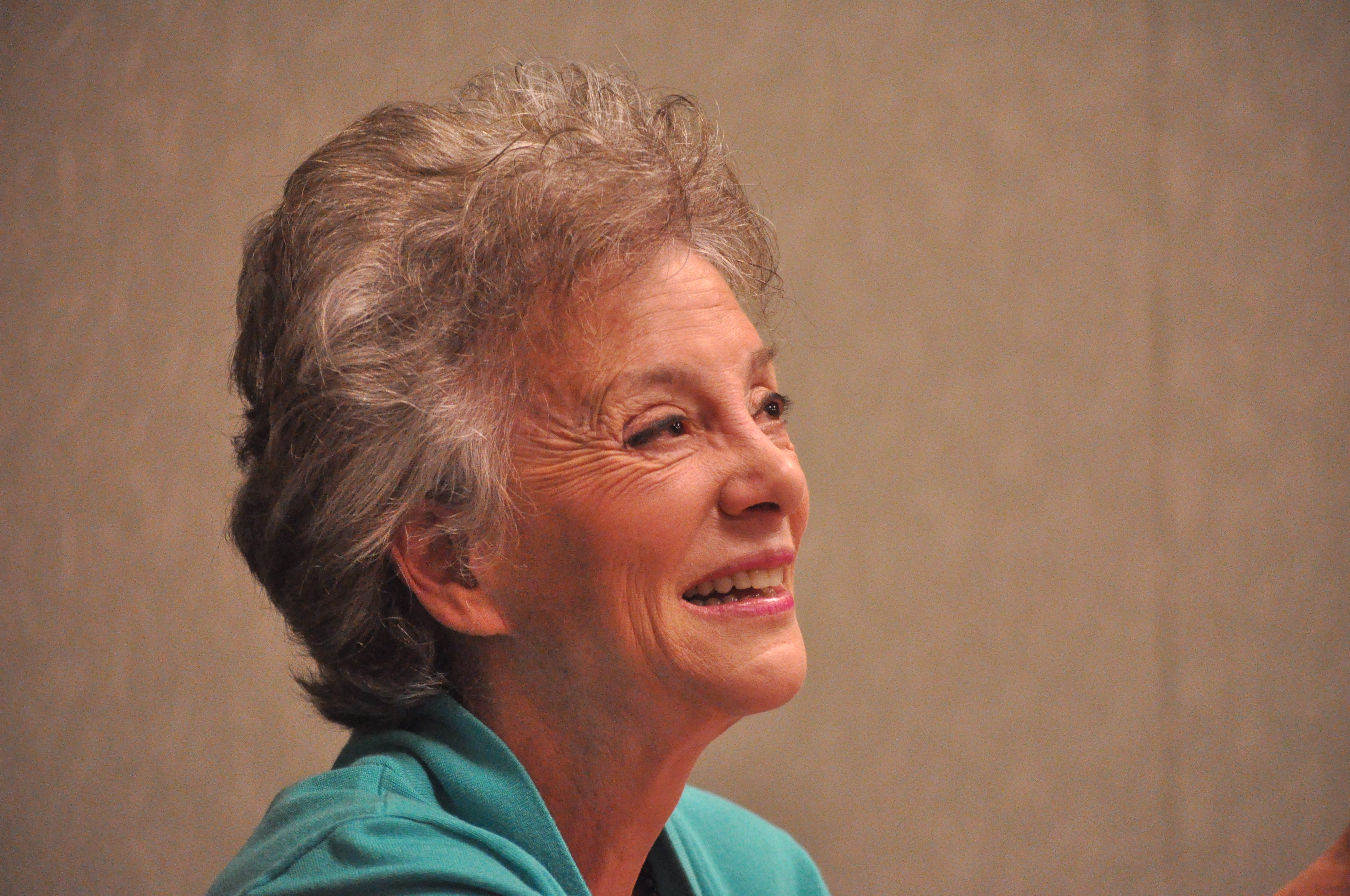 Stephanie Coontz after delivering the Blom lecture at the University of Washington, Seattle, Washington.